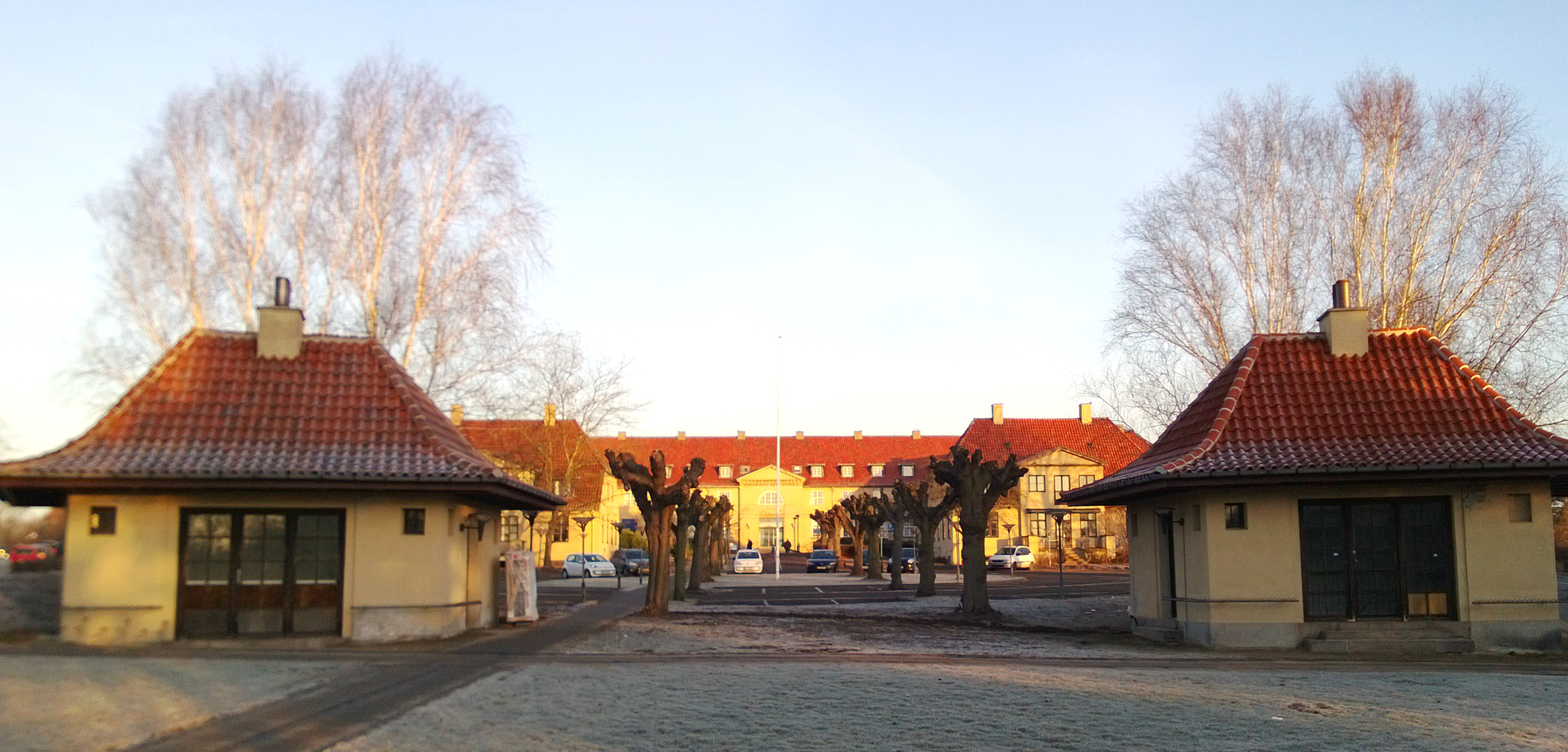 Gentofte Hospital near Copenhagen, Denmark